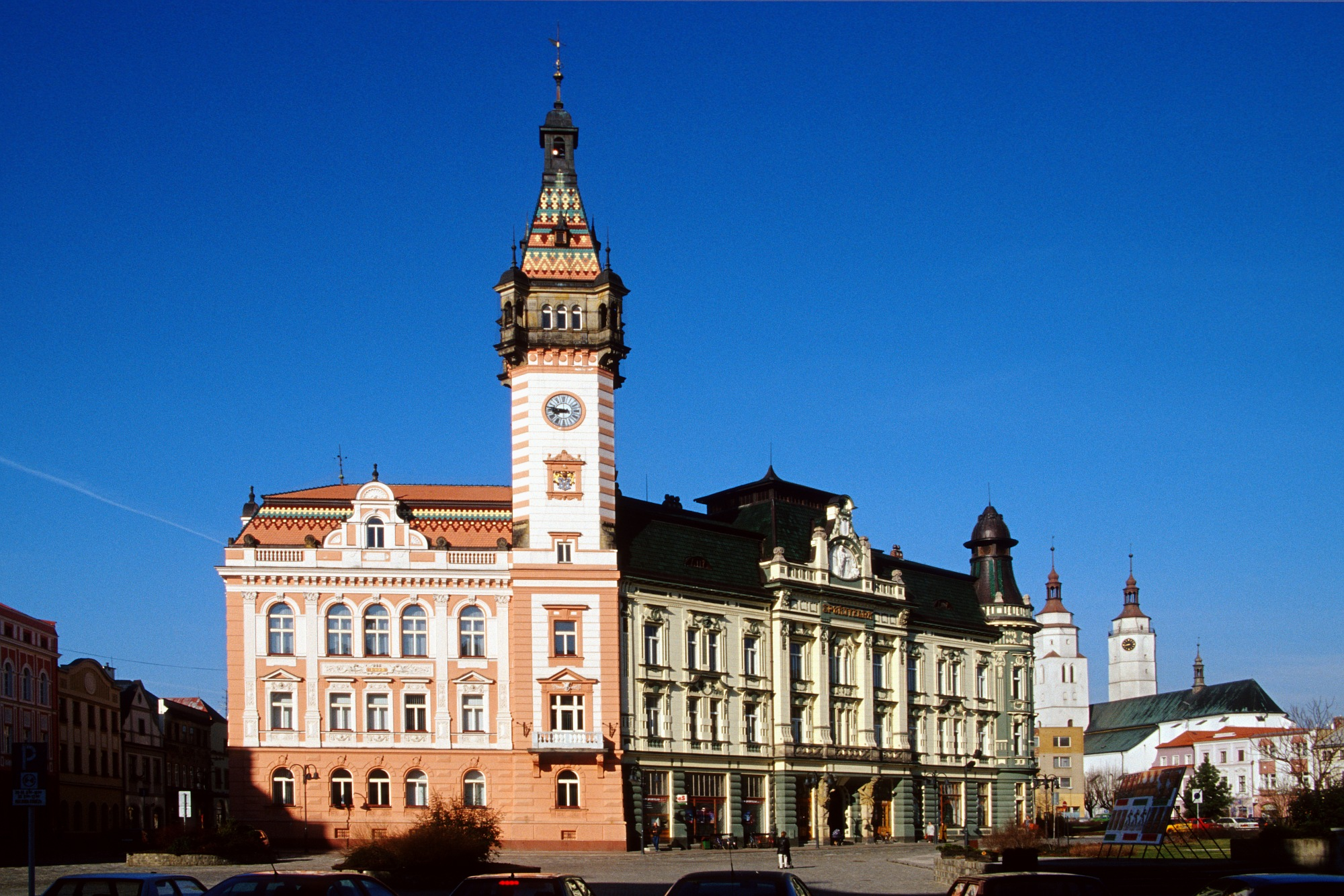 Townhall of Krnow with tower and adjacent bank building to the right. The townhall is identical with the district office of Währing in Vienna.